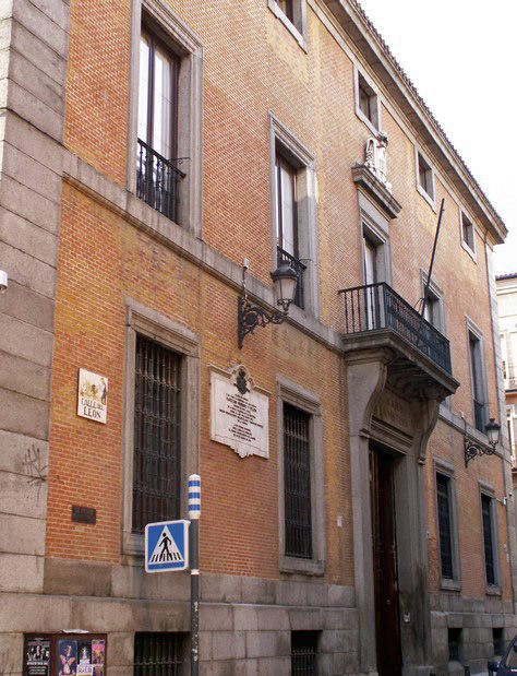 Former Nuevo Rezado in Madrid, seat of the Spanish Royal Academy of History.